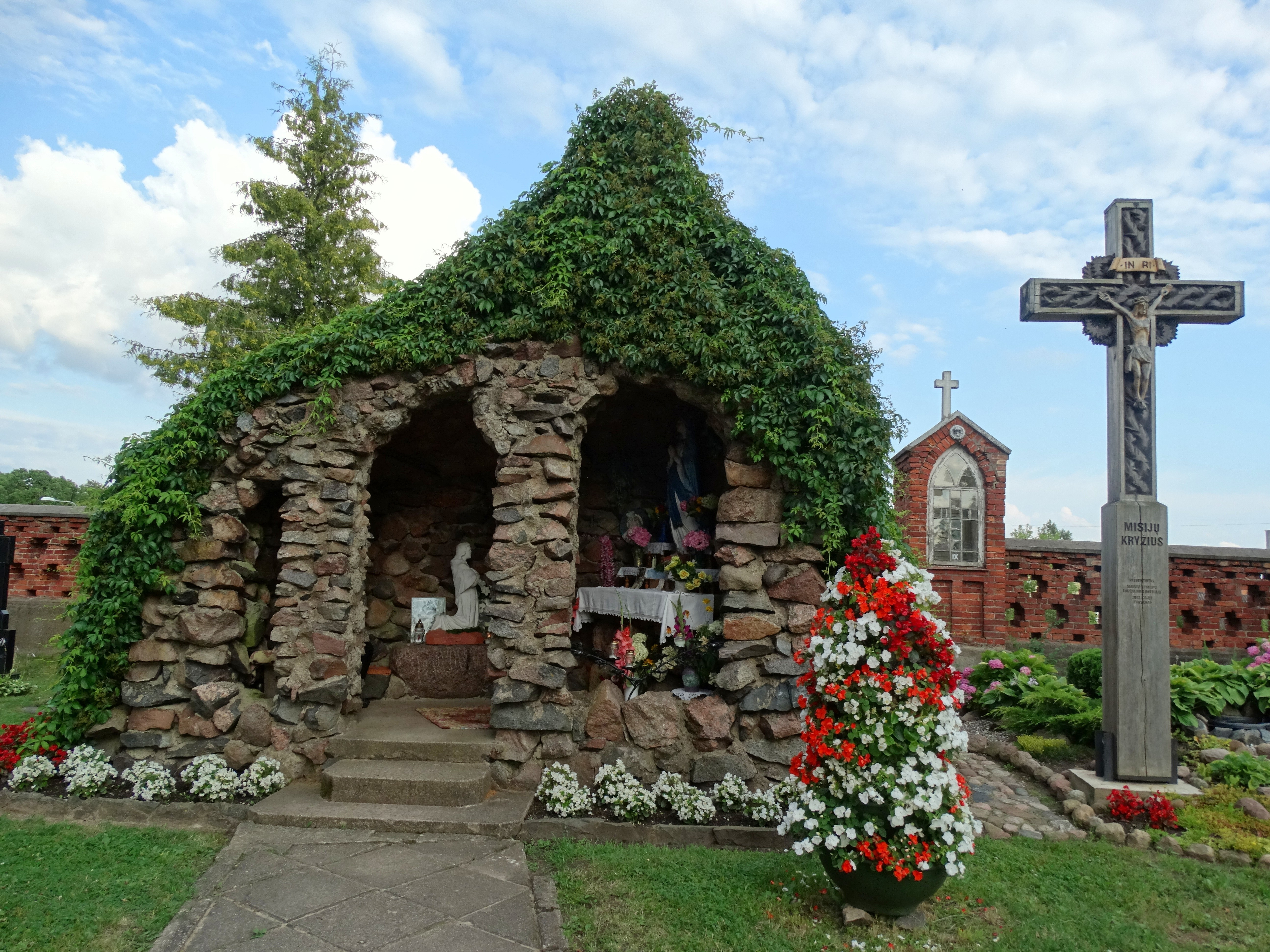 Lourdes Grotto, Kuršėnai, Šiauliai district, Lithuania